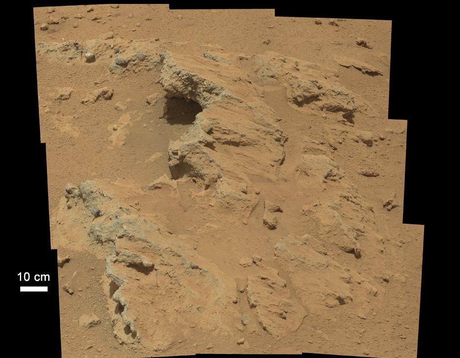 09.26.2012 Remnants of Ancient Streambed on Mars (Closeup) NASA's Curiosity rover found evidence for an ancient, flowing stream on Mars at a few sites, including the rock outcrop pictured here, which the science team has named "Hottah" after Hottah Lake in Canada's Northwest Territories. It may look like a broken sidewalk, but this geological feature on Mars is actually exposed bedrock made up of smaller fragments cemented together, or what geologists call a sedimentary conglomerate. Scientists theorize that the bedrock was disrupted in the past, giving it the titled angle, most likely via impacts from meteorites. The key evidence for the ancient stream comes from the size and rounded shape of the gravel in and around the bedrock. Hottah has pieces of gravel embedded in it, called clasts, up to a couple inches (few centimeters) in size and located within a matrix of sand-sized material. Some of the clasts are round in shape, leading the science team to conclude they were transported by a vigorous flow of water. The grains are too large to have been moved by wind. Broken surfaces of the outcrop have rounded, gravel clasts, such as the one circled in white, which is about 1.2 inches (3 centimeters) across. Erosion of the outcrop results in gravel clasts that protrude from the outcrop and ultimately fall onto the ground, creating the gravel pile at left. This image mosaic was taken by Curiosity's 100-millimeter Mastcam telephoto lens on its 39th Martian day, or sol, of the mission (Sept. 14, 2012 PDT/Sept. 15 GMT).